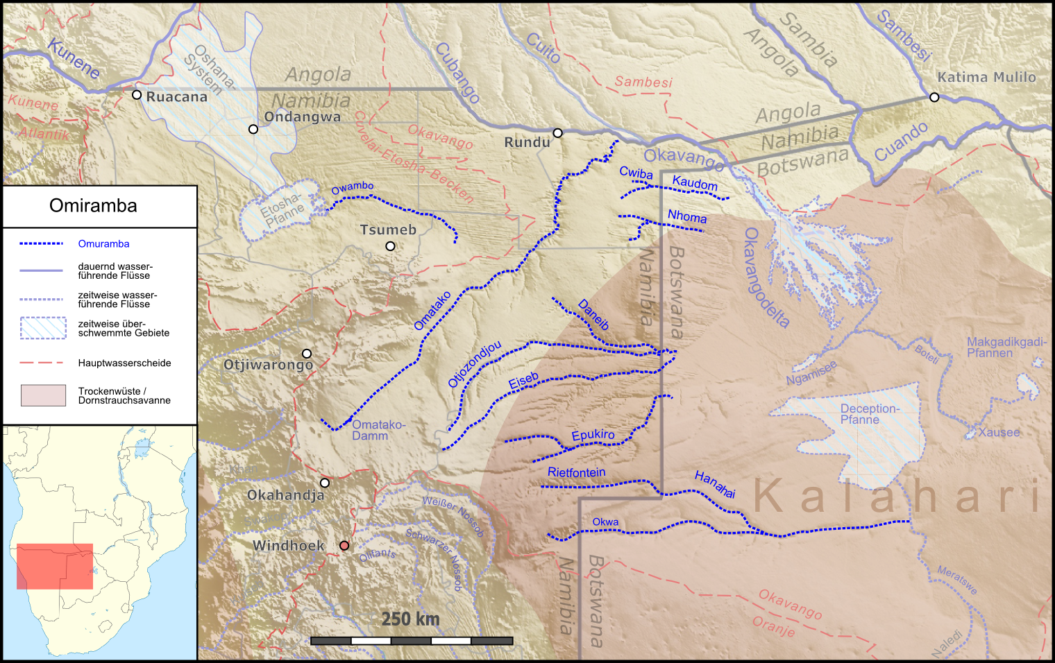 Omiramba in Namibia und Botswana, index in German, pyhsical map